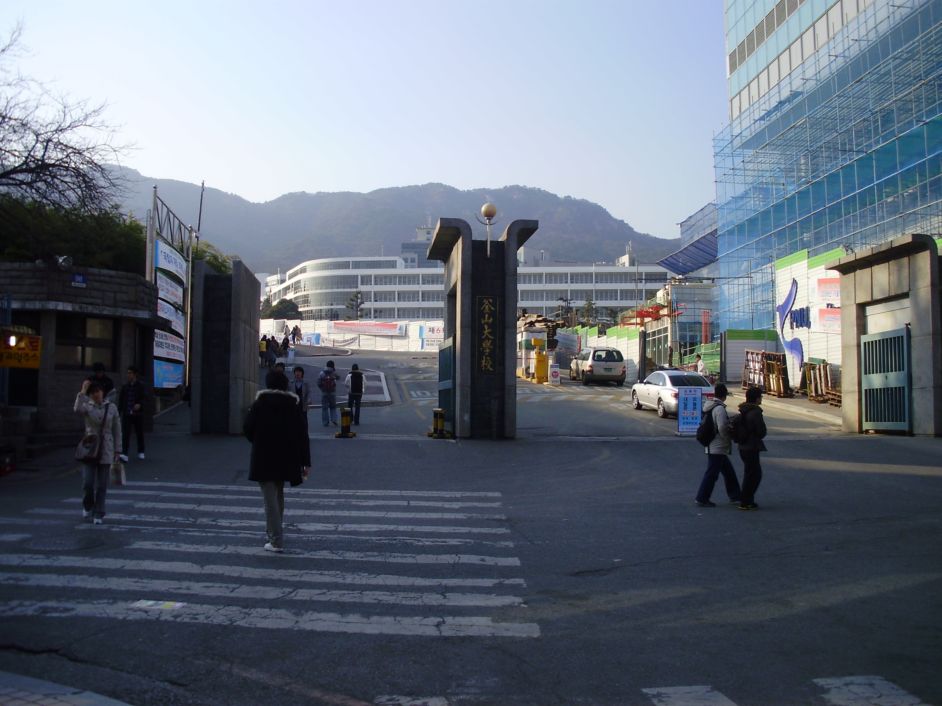 Main entrance of Pusan National University